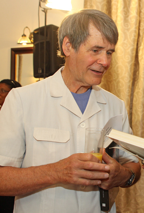 Kevin Shillington (on the left) at the presentation of his book on France-Albert René biography.